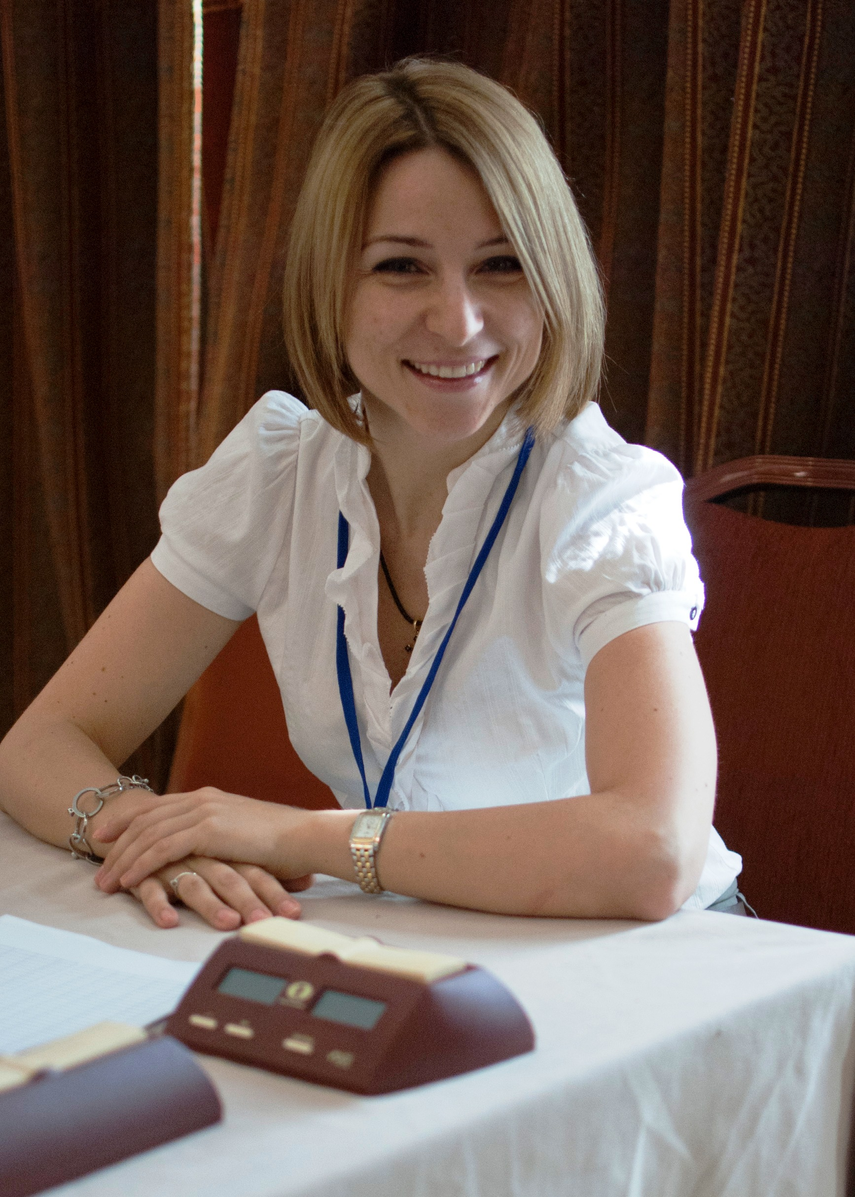 WIM Anastasia Sorokina, WChJ Athens 2012